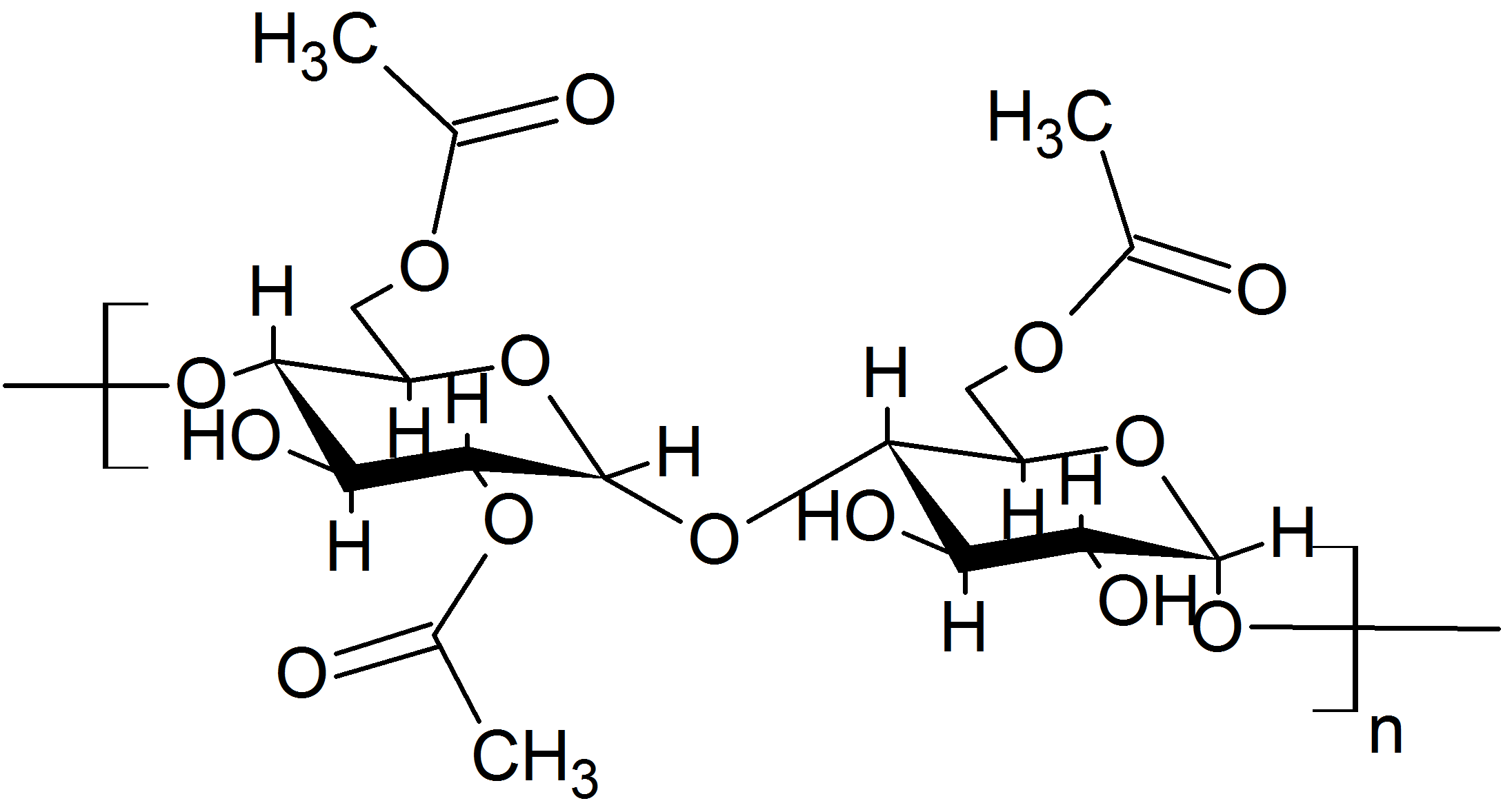 Starchacetate